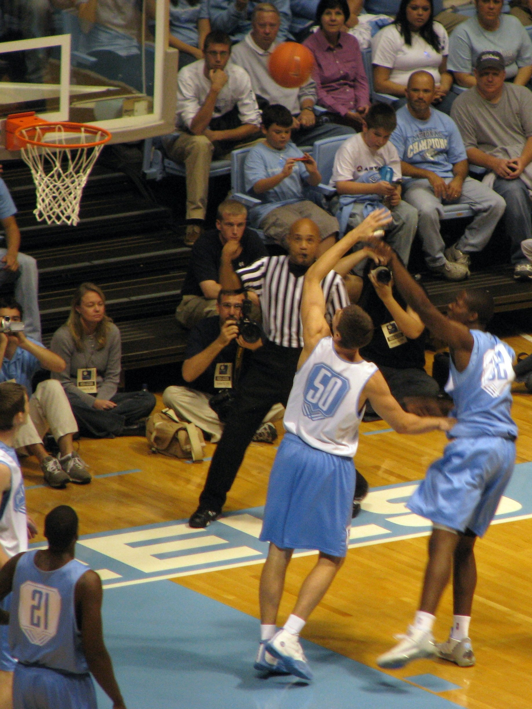 Ed Davis shoots over Tyler Hansbrough